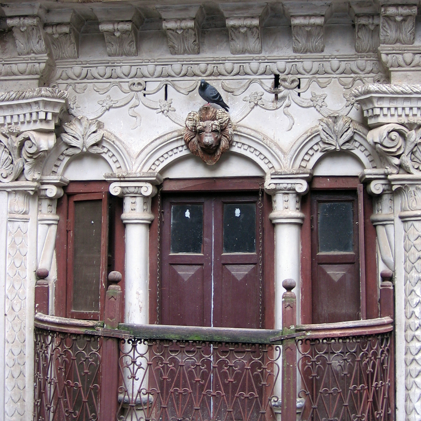 Facade of a house in Asan, Kathmandu.